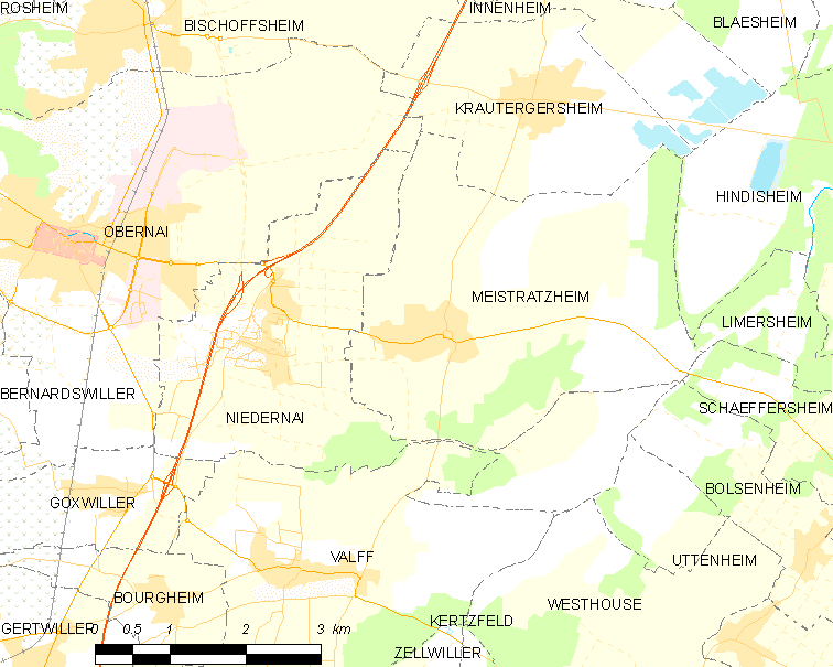 Map of French municipality